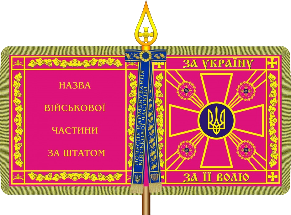 Battle flag of the Ukrainian Ground Forces.